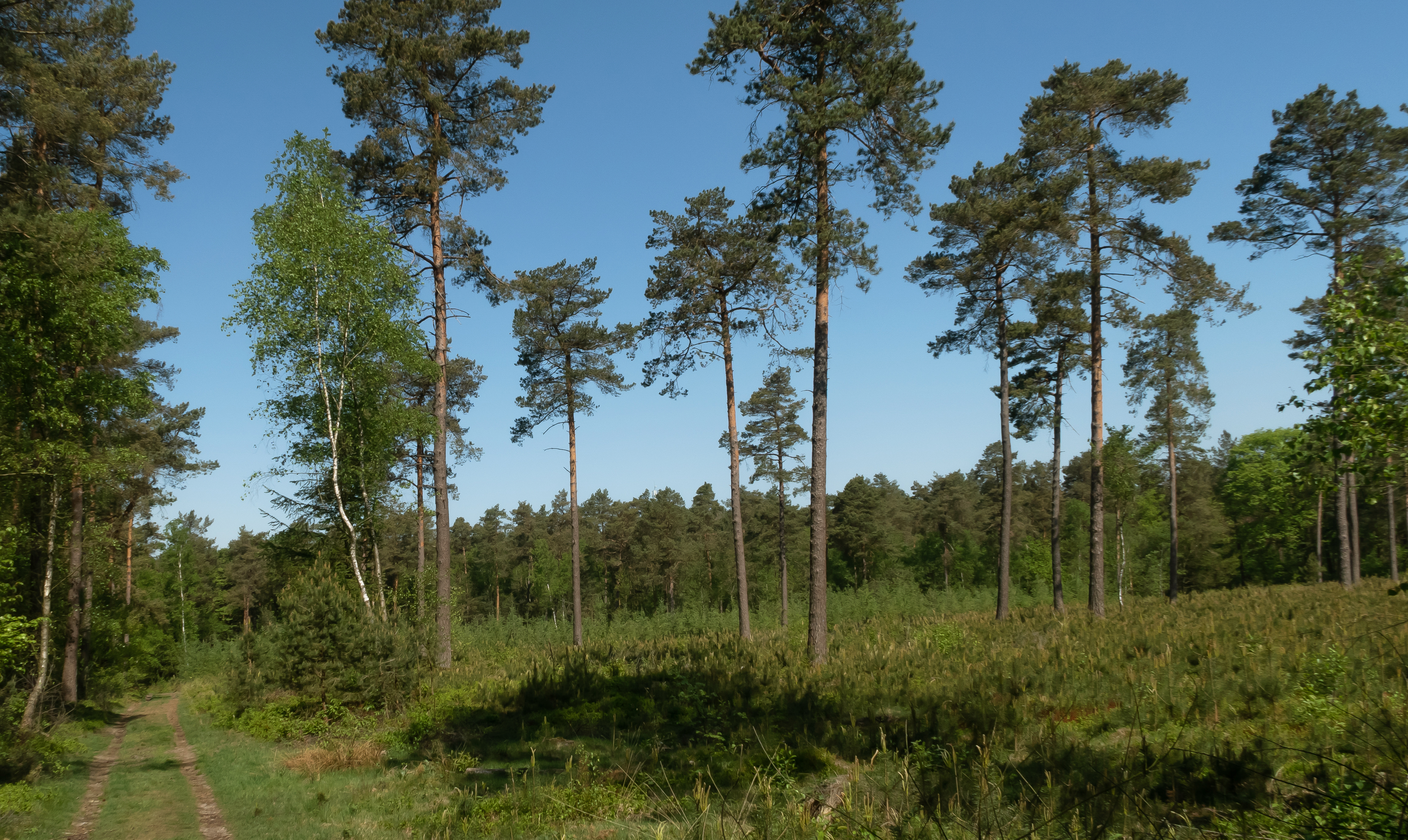 Eerbeek, the Veluwe near the Imboschweg-the Eerbeekse voetpad